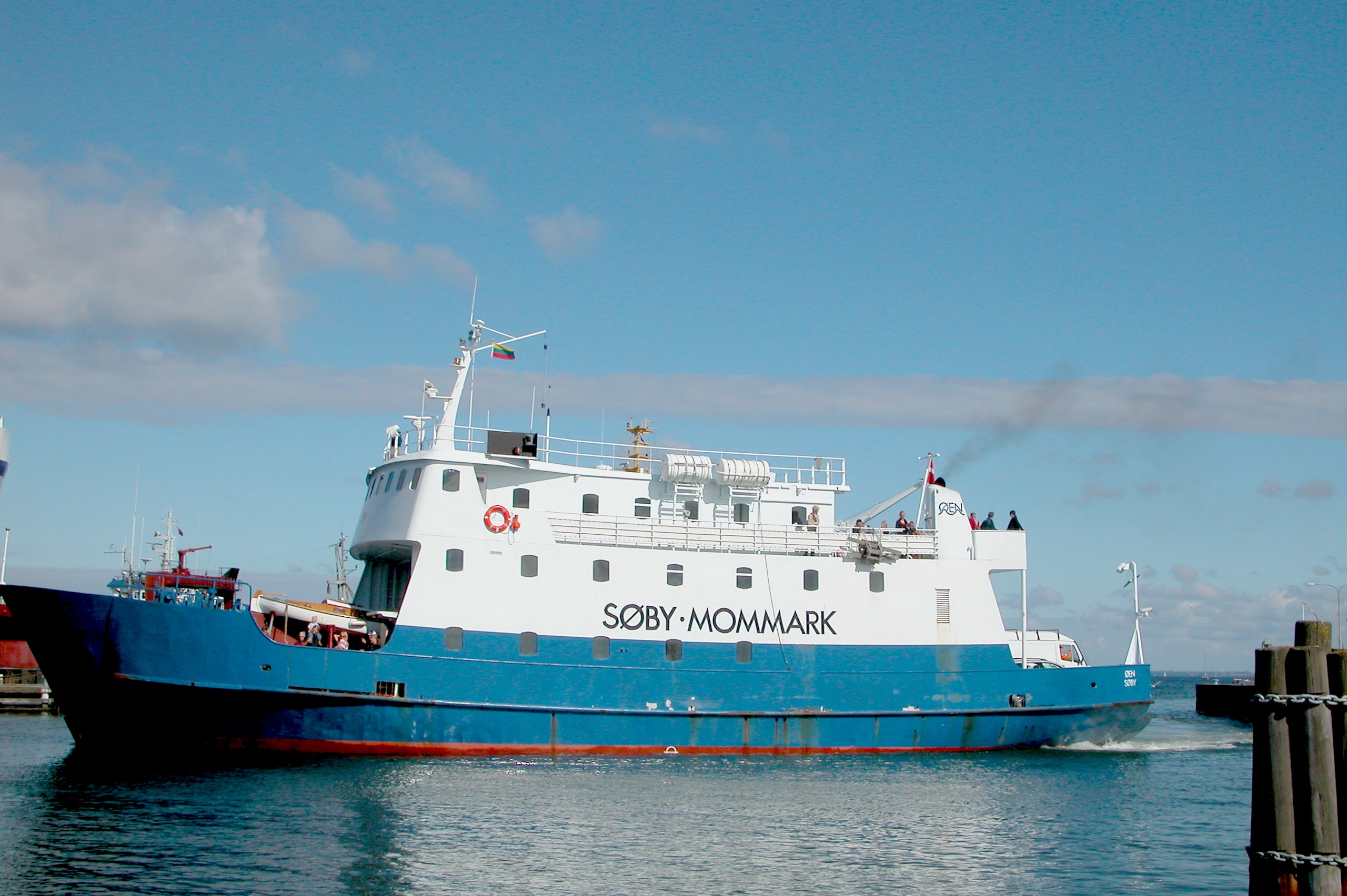 M/F Øen, Søby, Ærø, Denmark